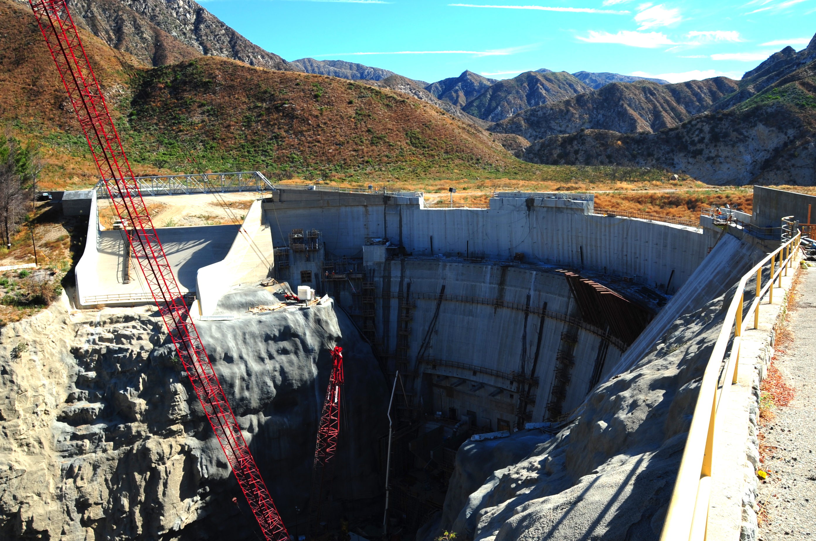 La Canada Flintridge, CA, August 2, 2010 --The Big Tujunga Dam is under construction to reinforce the walls due to an increased debris flow from recent severe winter storms. Under the major disaster declaration DR 1884, The Robert T. Stafford Act provides by FEMA to the state, Public Assistance funds categories A to G, emergency protective measures and infrastructure's repairs. Adam DuBrowa/FEMA Information Big Tujunga Dam - on Big Tujunga Creek in the San Gabriel Mountains, Angeles National Forest - Southern California.